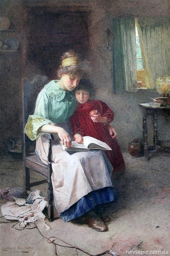 Mother and child reading a story